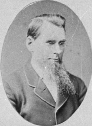 Portrait taken from montage depicting members of the 1882 House of Representatives.